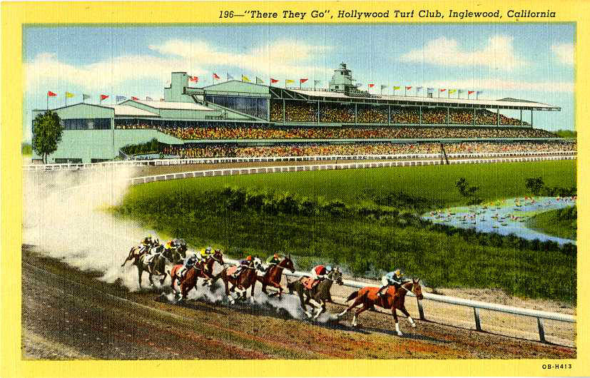 196, There They Go, Hollywood Turf Club